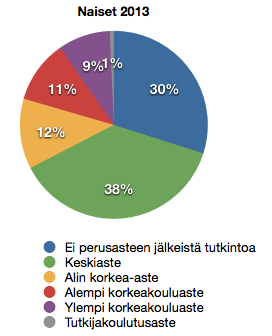 Education level of over 15 years old females from Finland in 2013. Source tilastokeskus koulutustilastot 2014